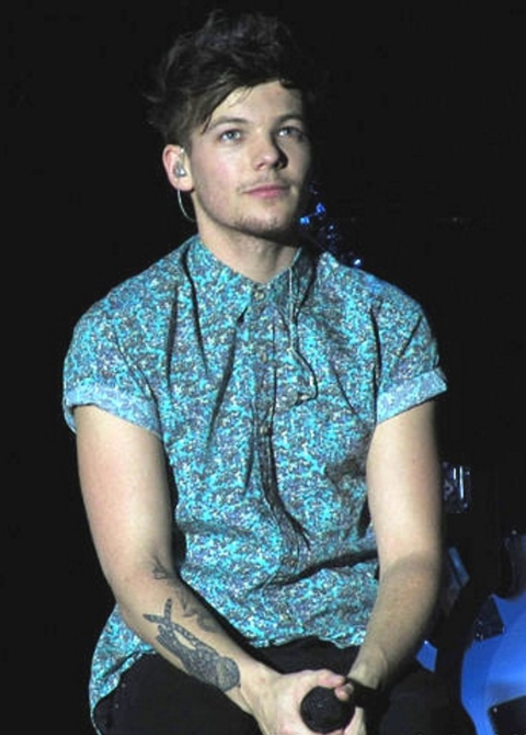 One Direction, Scottish Exhibition and Conference Centre (SECC), Clyde Auditorium, Glasgow, Wednesday 27 February 2013, Take Me Home Tour